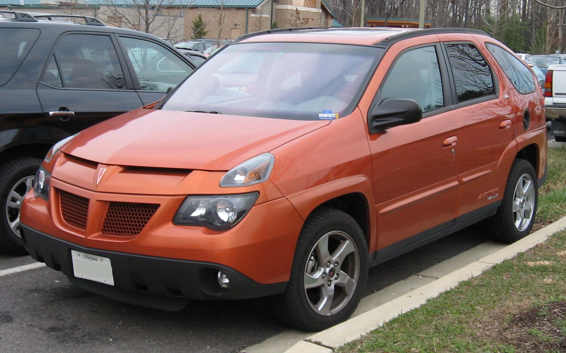 2002-2005 Pontiac Aztek photographed in USA.